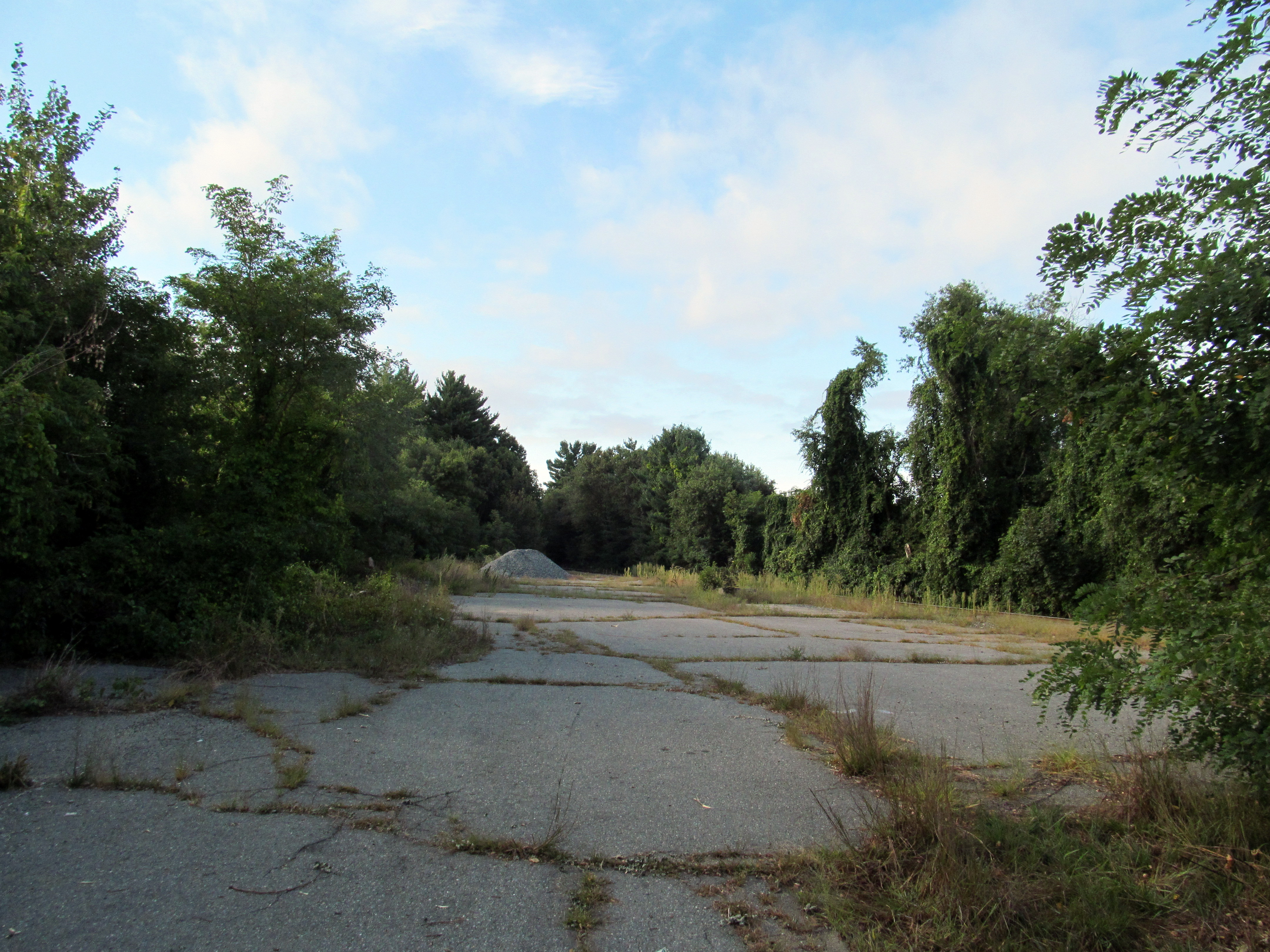 Former parking lot at Salem Street station site in September 2014